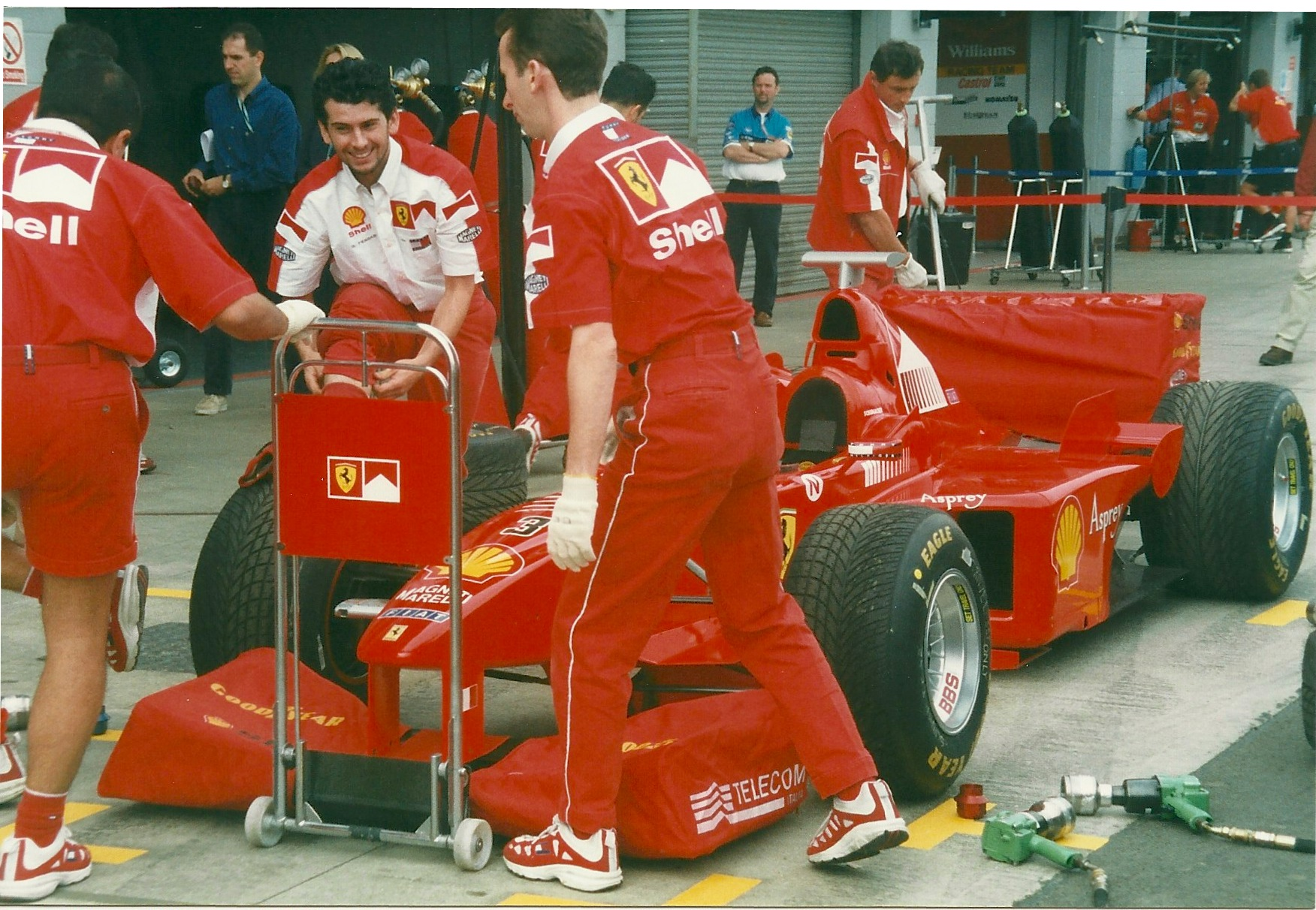 Ferrari F300 at the 1998 British Grand Prix.